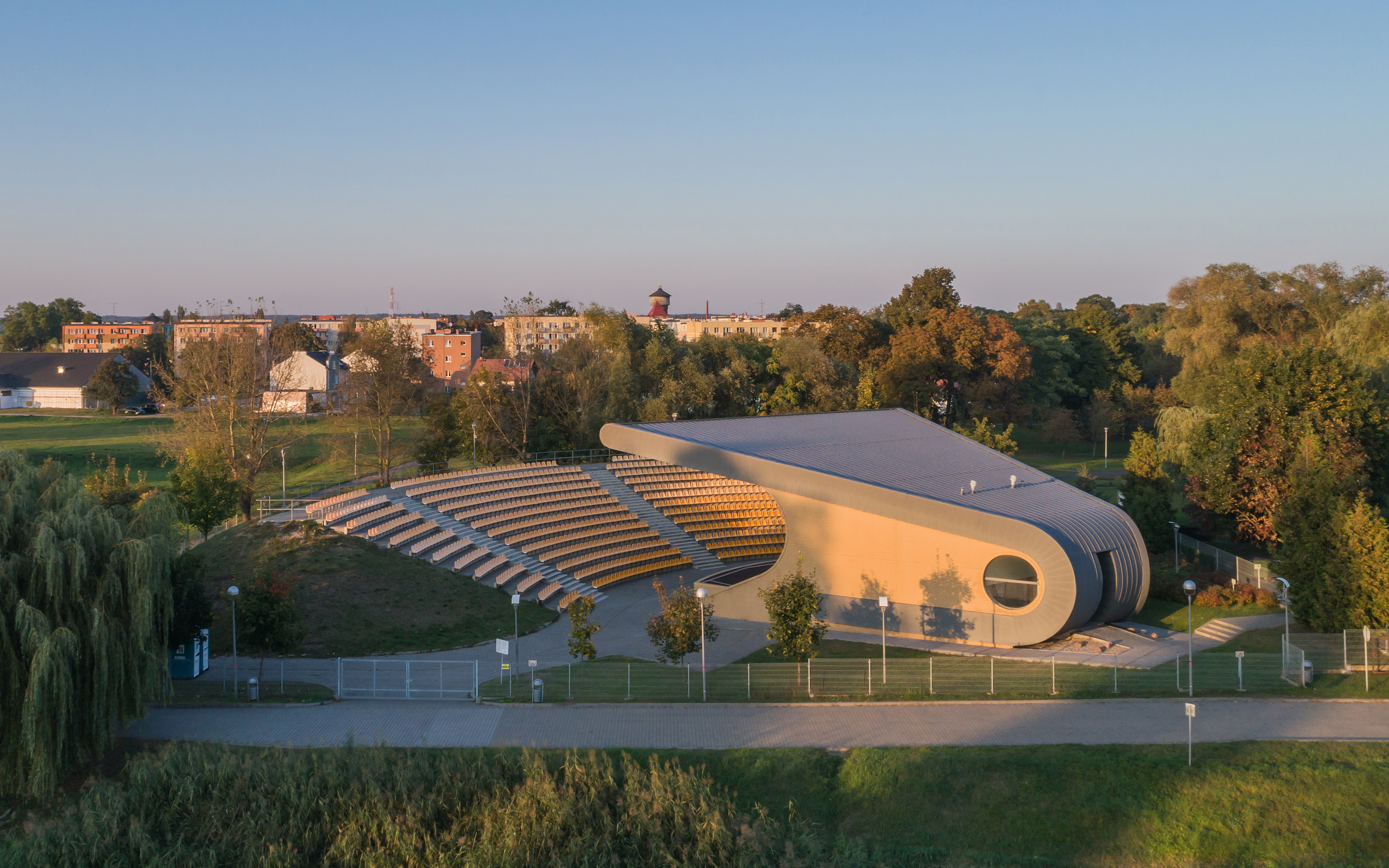 Amphitheater in Kostrzyn nad Odrą (Poland)